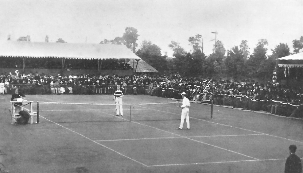 William (left?) and Ernest Renshaw, playing a match at the Wimbledon Championships 1883